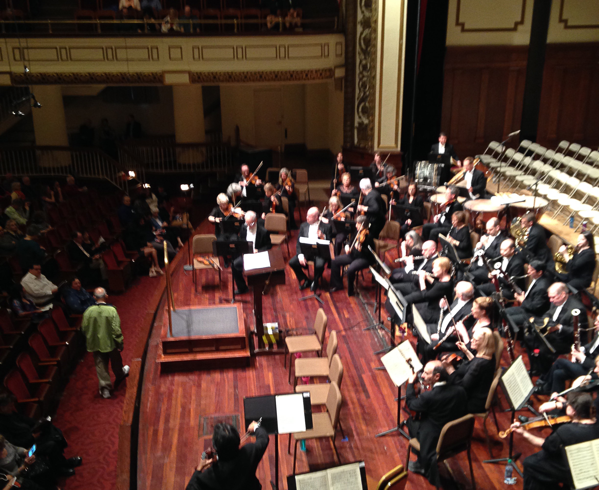 Players in the Springfield Symphony Orchestra warm up before a concert; the empty chairs in the back representing seats used by the UMass choir during the show.